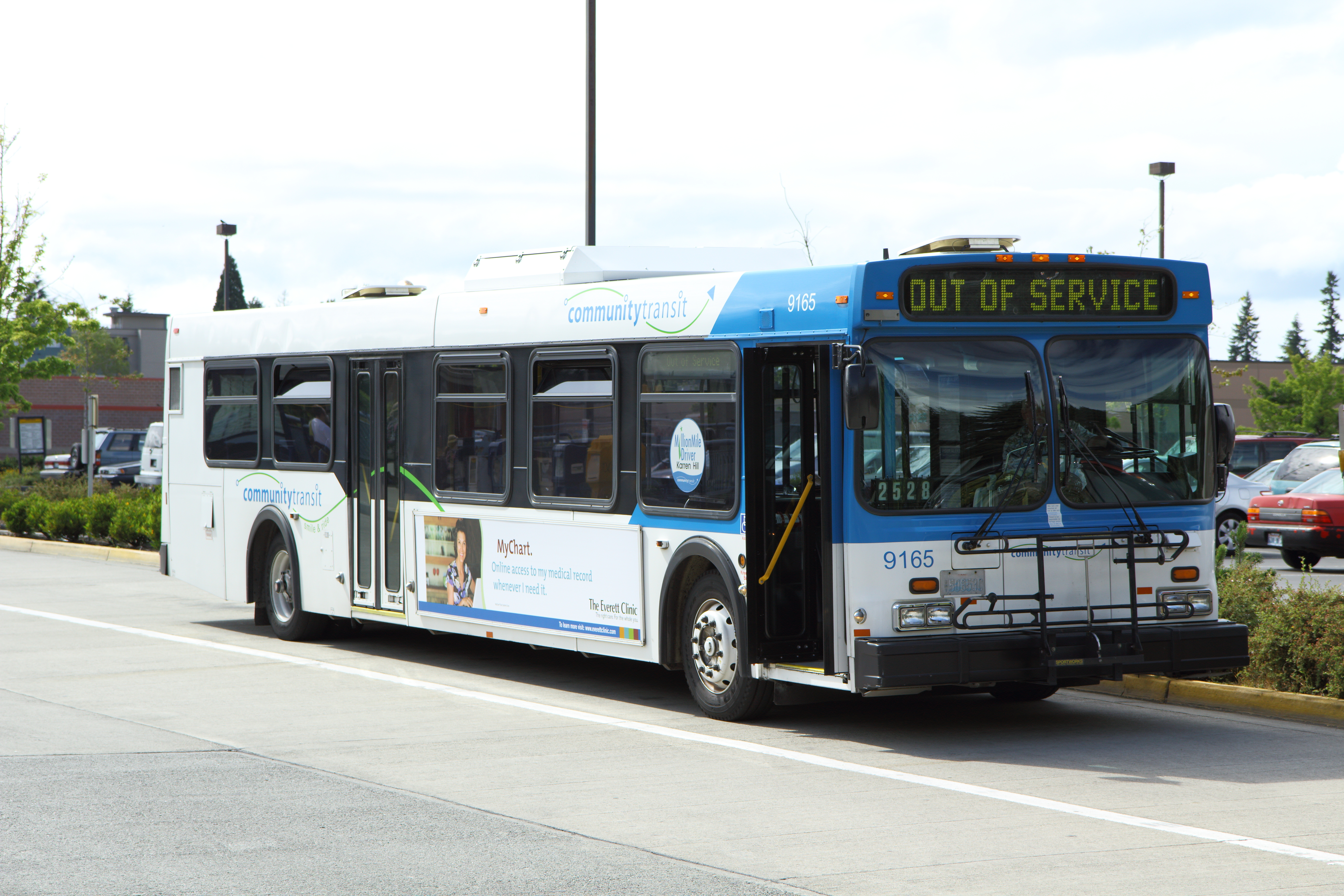 Community Transit 9165, a 1999 New Flyer D40LF, at a bus layover at the Aurora Village Transit Center in Shoreline.